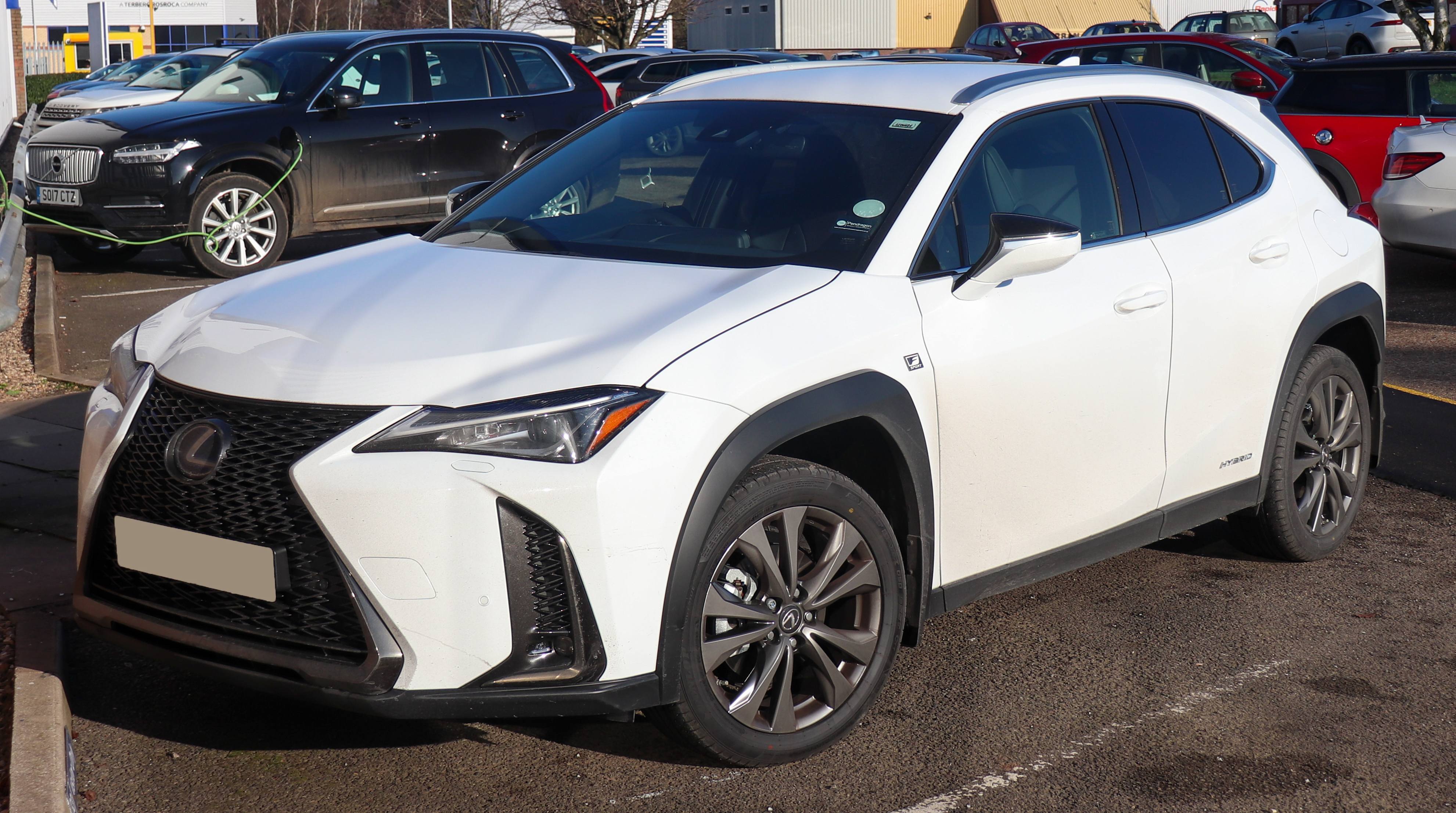 2020 Lexus UX 250h F Sport CVT 4X2 2.0 Front Taken in Leamington Spa